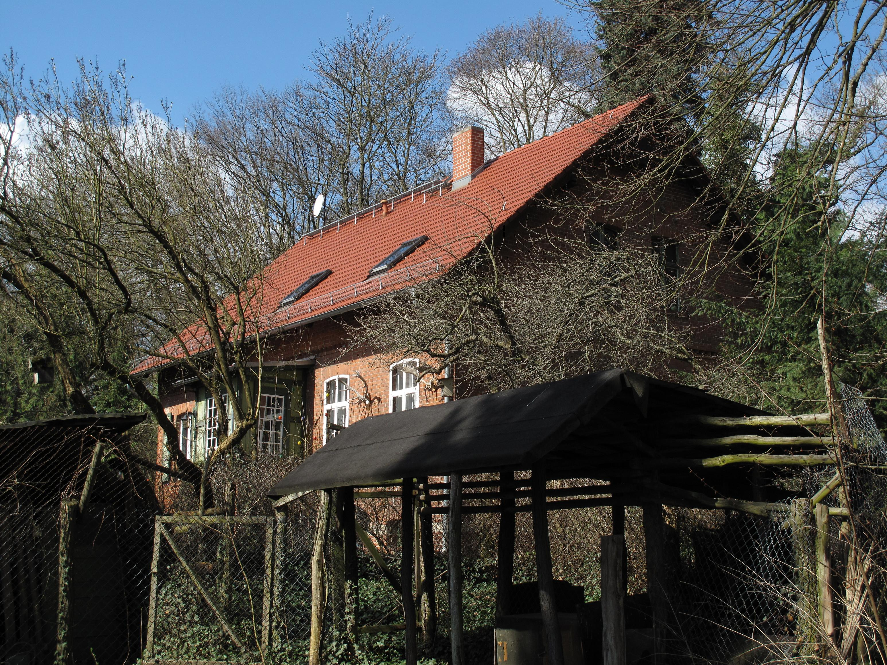 Former forester's lodge Seddin, built in 1874, at the Großer Seddiner See. The Großer Seddiner See is a glacial lake in the nature park Nuthe-Nieplitz in Germany, Brandenburg, district Potsdam-Mittelmark, and covers 2,18 km². The lake is situated in the municipalities Seddiner See and Michendorf.